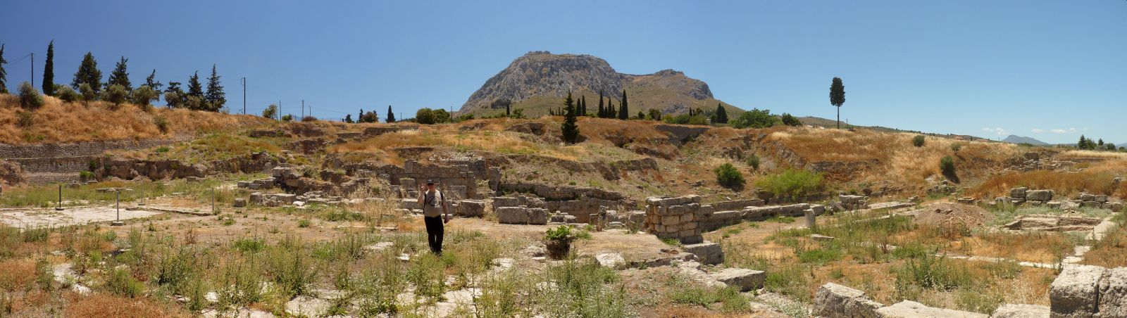 Ancient Corinth - Theatre